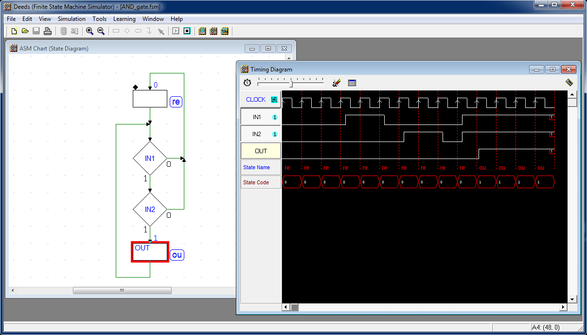 Das Bild zeigt ein erstelltes Beispiel einer AND-Schaltung in Form eines Zustandsübergangsdiagrammes sowie das Zeitdiagramm der Simulation gezeigt.